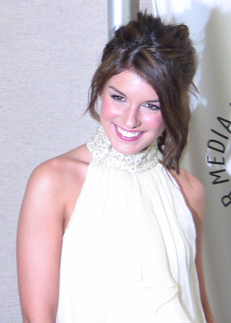 Actress Shenae Grimes at 90210 Paley Fest. William S. Paley Center, Beverly Hills, California